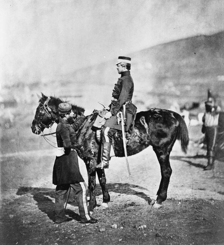 Crimean War 1854-56 Colonel Lord George Augustus Frederick Paget, CB, 4th Light Dragoons on his horse and Lieutenant Colonel John Douglas, CB, 11th Hussars.